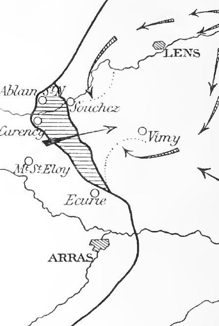 Second battle of Artois, French attack on 9 May 1915 and German counter-attacks